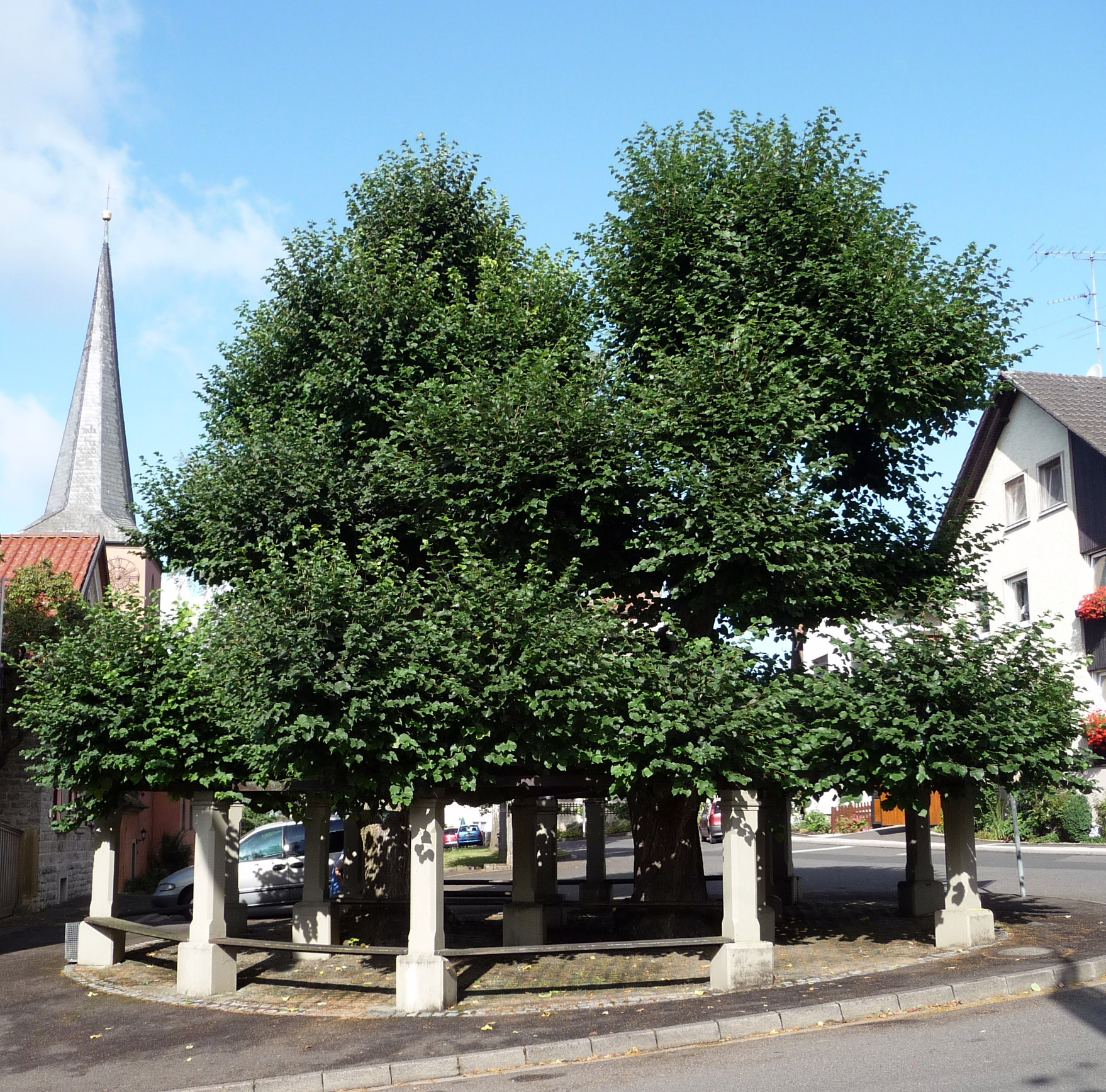 Türkenlinde in Ottendorf, Landkreis Haßberge, Bavaria, Germany